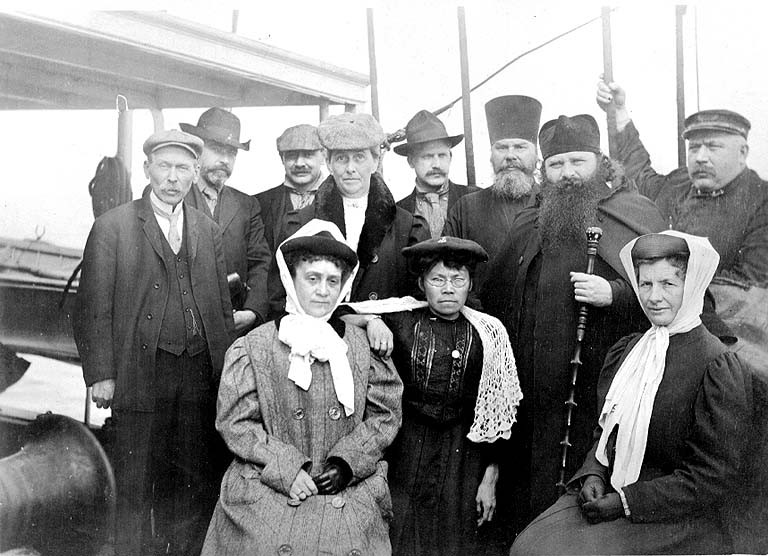 On verso of image: Party aboard S.S. Dora, July-August trip, 1907. Mrs. Whitney 1st at left in front row, John N. Cobb with cap in back row, Russian Orthodox Bishop in group Subjects (LCTGM): Passengers--Alaska; Steamboats--Alaska; Bishops--Alaska Subjects (LCSH): Cobb, John N. (John Nathan), 1868-1930; Dora (Ship); Women--Clothing and dress; Men--Clothing and dress; Bishops--Clothing and dress; Church vestments--Alaska; Portraits, Group--Alaska